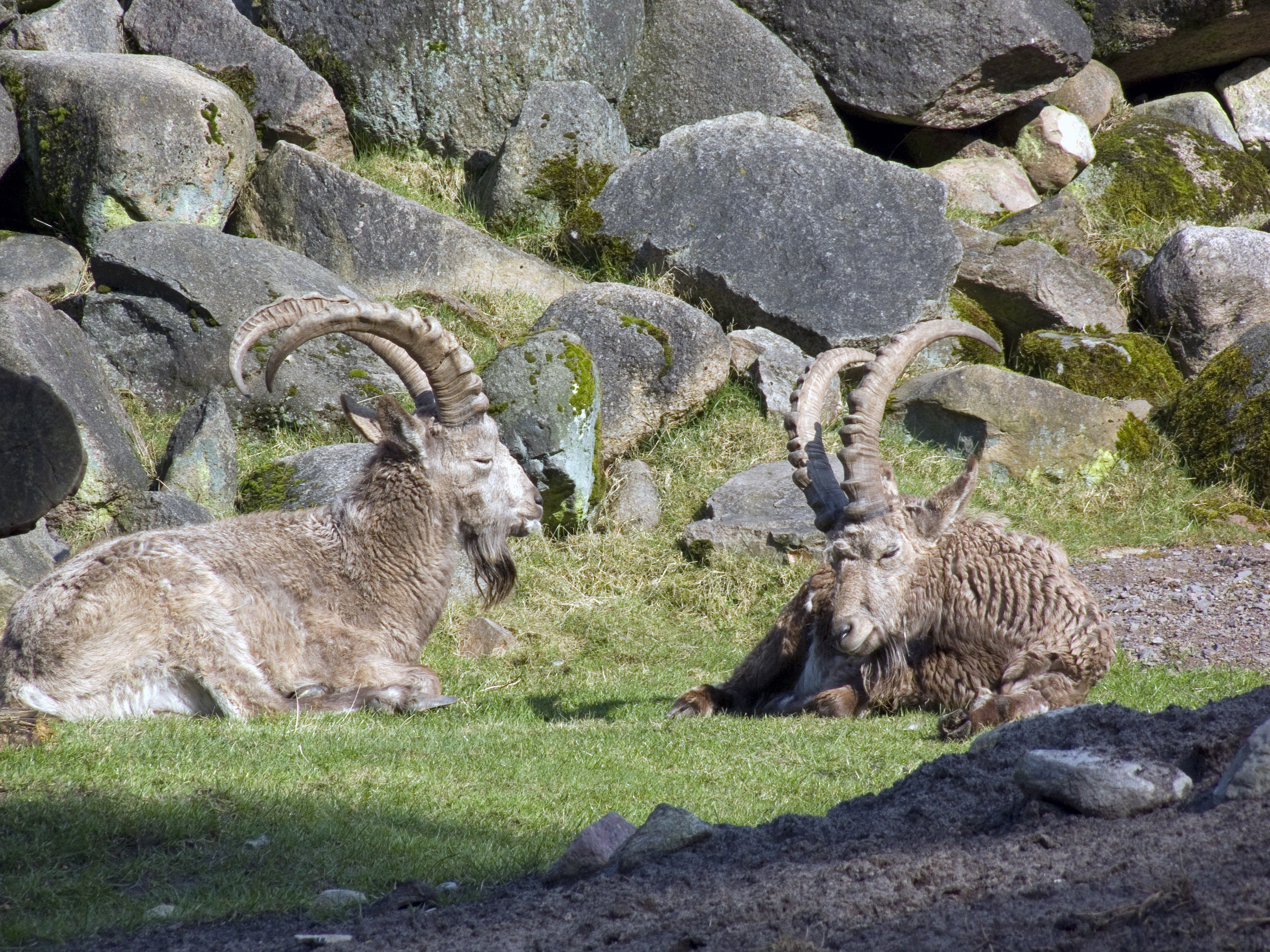 Siberian Ibex